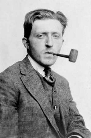 Maxwell Bodenheim with pipe in mouth